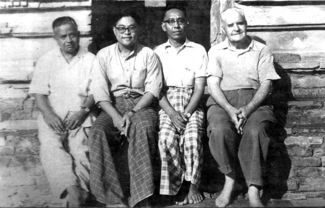 Bohmu Ba Shin, U Bo Kay, Saya Min Thu Wun (U Wun) and G.H. Luce မြန်မာဘာသာ: ဗိုလ်မှူး ဘရှင်၊ ဦးဘိုကေ၊ ဦးဝန် (ဆရာ မင်းသုဝဏ်)၊ မစ္စတာ လု(စ်)